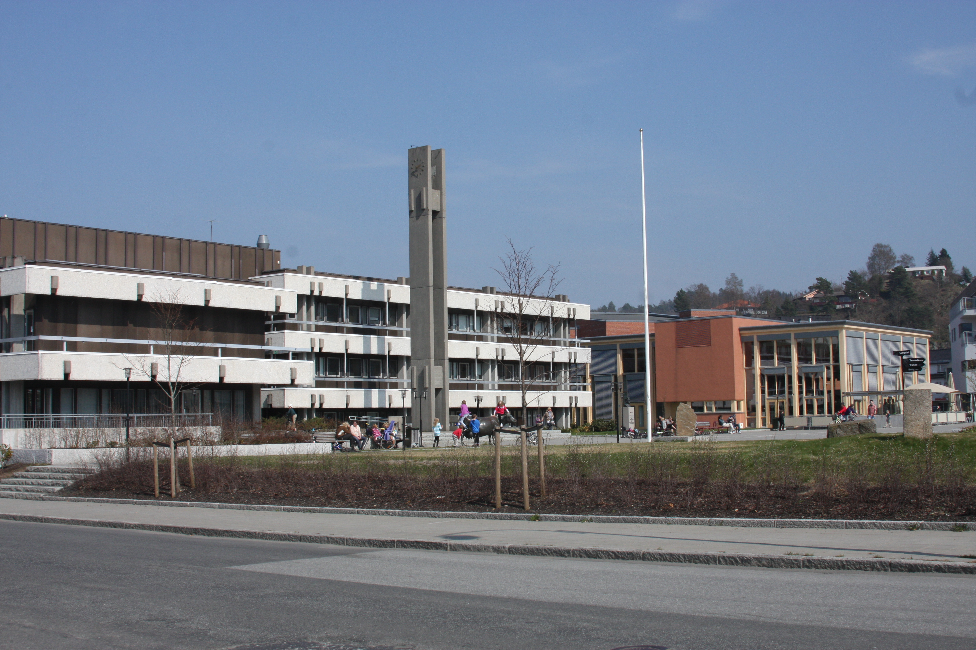 Lyngdal city hall in the township Alleen, municipality of Lyngdal, vest-Agder.